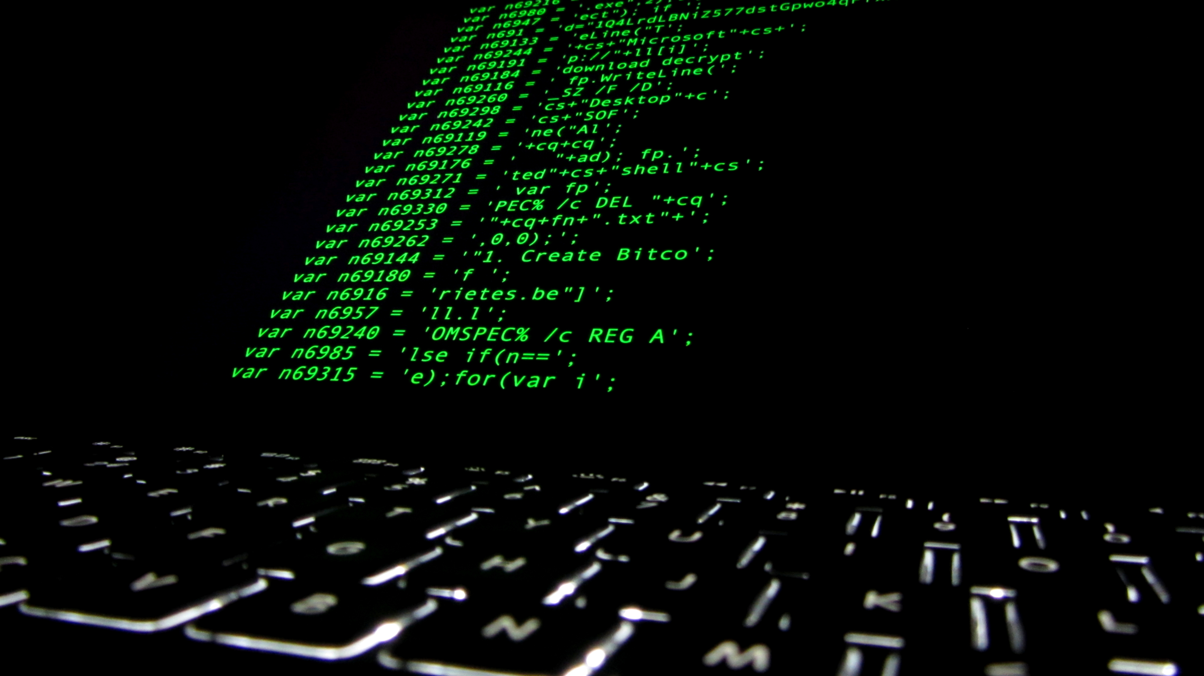 Example of Locky ransomware. Locky is ransomware malware released in 2016. It is delivered by email and after infection will encrypt all files that match particular extensions. After encryption, a message (displayed on the user's desktop) instructs them to download the Tor browser and visit a specific criminal-operated Web site for further information. The current version, released in December 2016, utilizes the .osiris extension for encrypted files. Many different distribution methods for Locky have been used since the ransomware was released. These distribution methods include Word and Excel attachments with malicious macros,DOCM attachments and zipped JS Attachments.